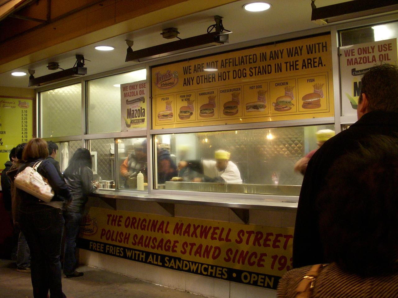 THE Maxwell Street Polish Hot Dog Stand incredibly crowded with people and cars at 4AM in morning. 1 of the best hot dog + fries combo that i've had.